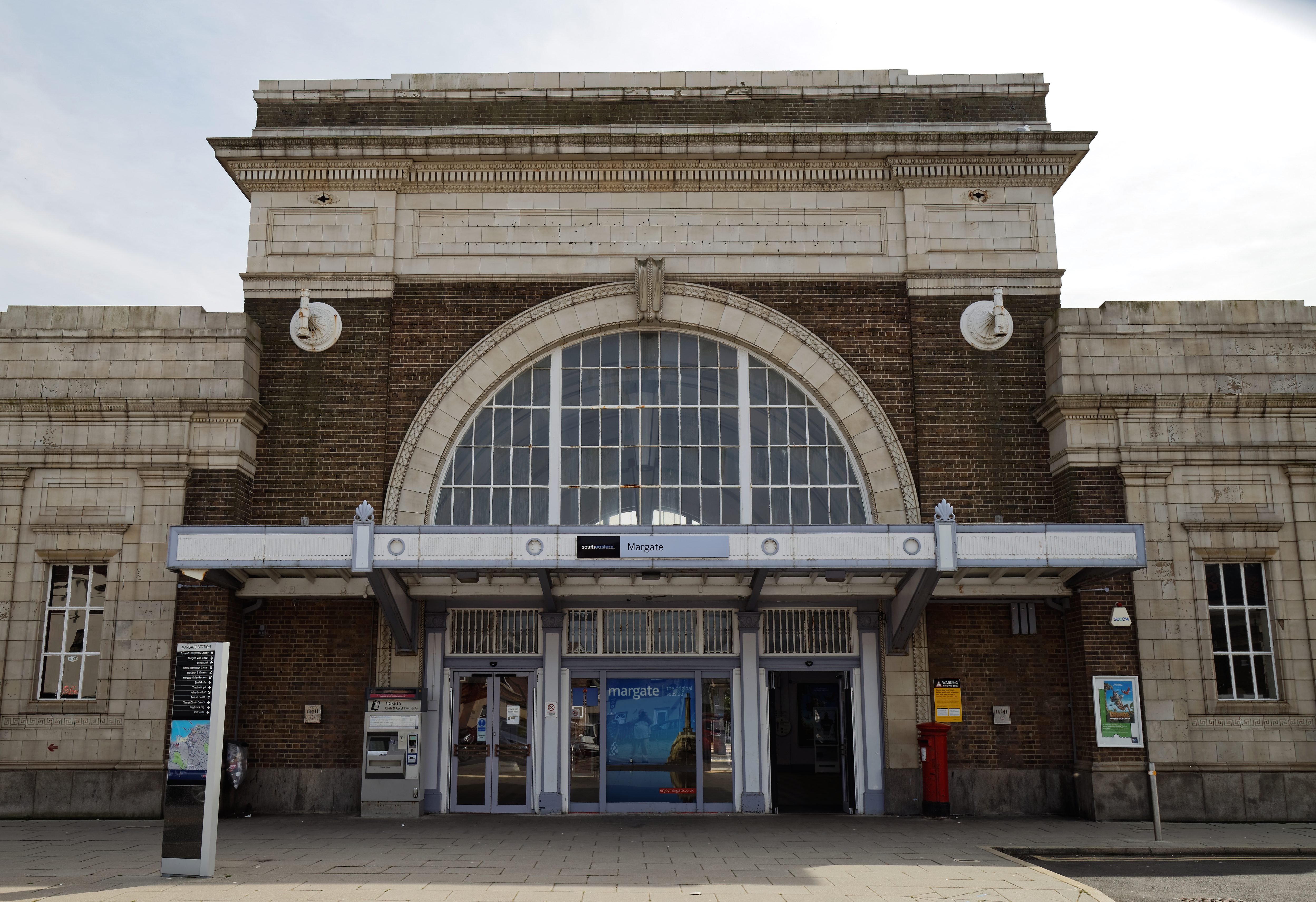 The entrance of Margate railway station, Margate, Kent, England.Camera: Canon EOS 6D with Canon EF 24-105mm F4L IS USM lens.Software: large RAW file lens-corrected, optimized and downsized with DxO OpticsPro 10 Elite, Viewpoint 2, and Adobe Photoshop CS2.